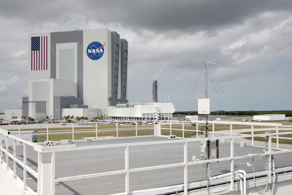 RADWIN point-to-point unit deployed at Kennedy Space Center, Florida.